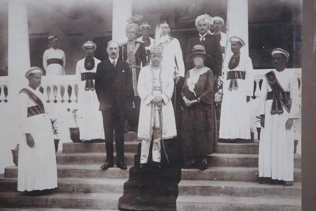 Historical picture of the Maharajah of Jeypore with the Governor of Madras Presidency and later the Viceroy of India, Second Viscount Goschen